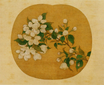 Apple Blossoms (絹本著色林檎花図, kenpon chosoku ringo no hana zu). Hanging scroll, 23.6 x 25.5 cm. Color on silk. Located at the Hatakeyama Memorial Museum of Fine Art, Tokyo. The scroll has been designated as National Treasure of Japan in the category paintings.